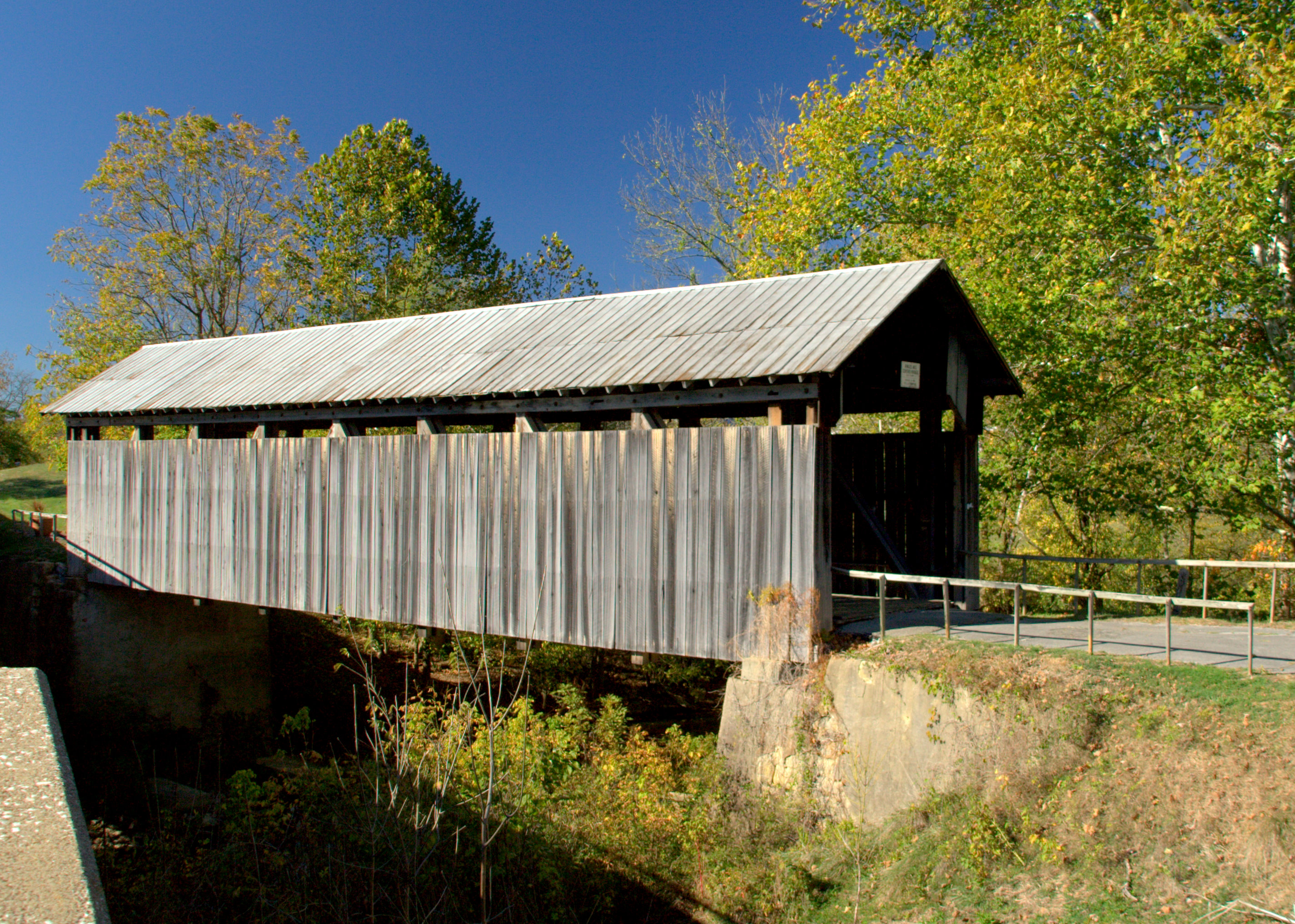 Ringo's Mill Bridge in Fleming County, Kentucky. Photo by Greg Hume